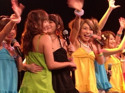 2013/03/31 Osaka - Bigcat